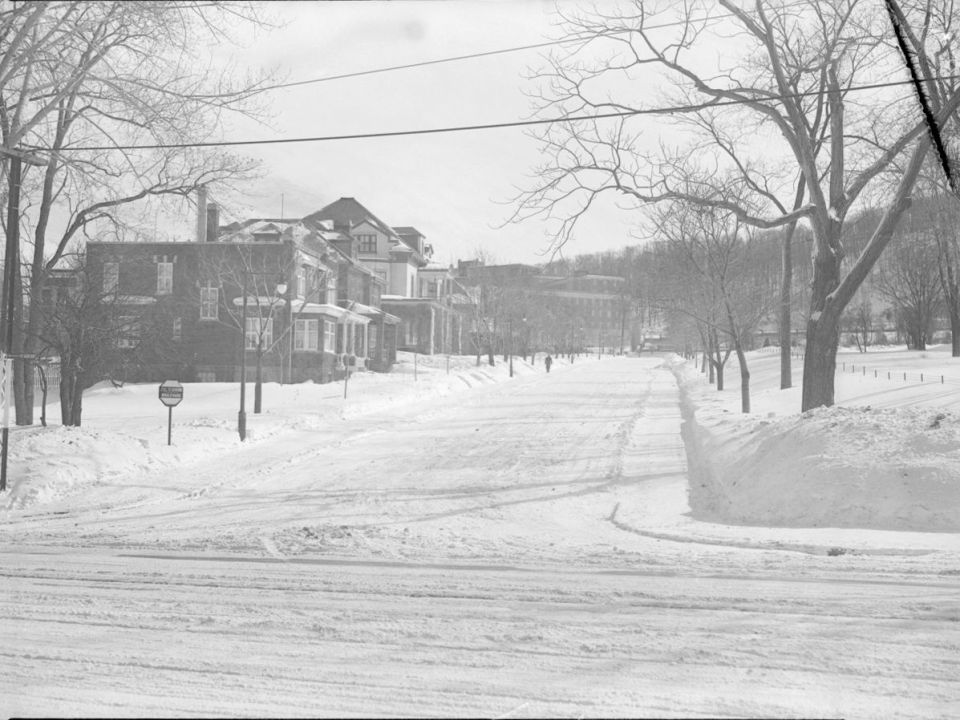 For documentary purposes the original description provided by BAnQ has been retained. Additional descriptive text may be added by Wikimedians with the wiki description = parameter, but please do not modify the other fields.